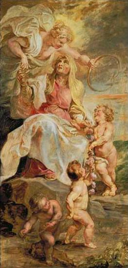 Allegory of Eternity